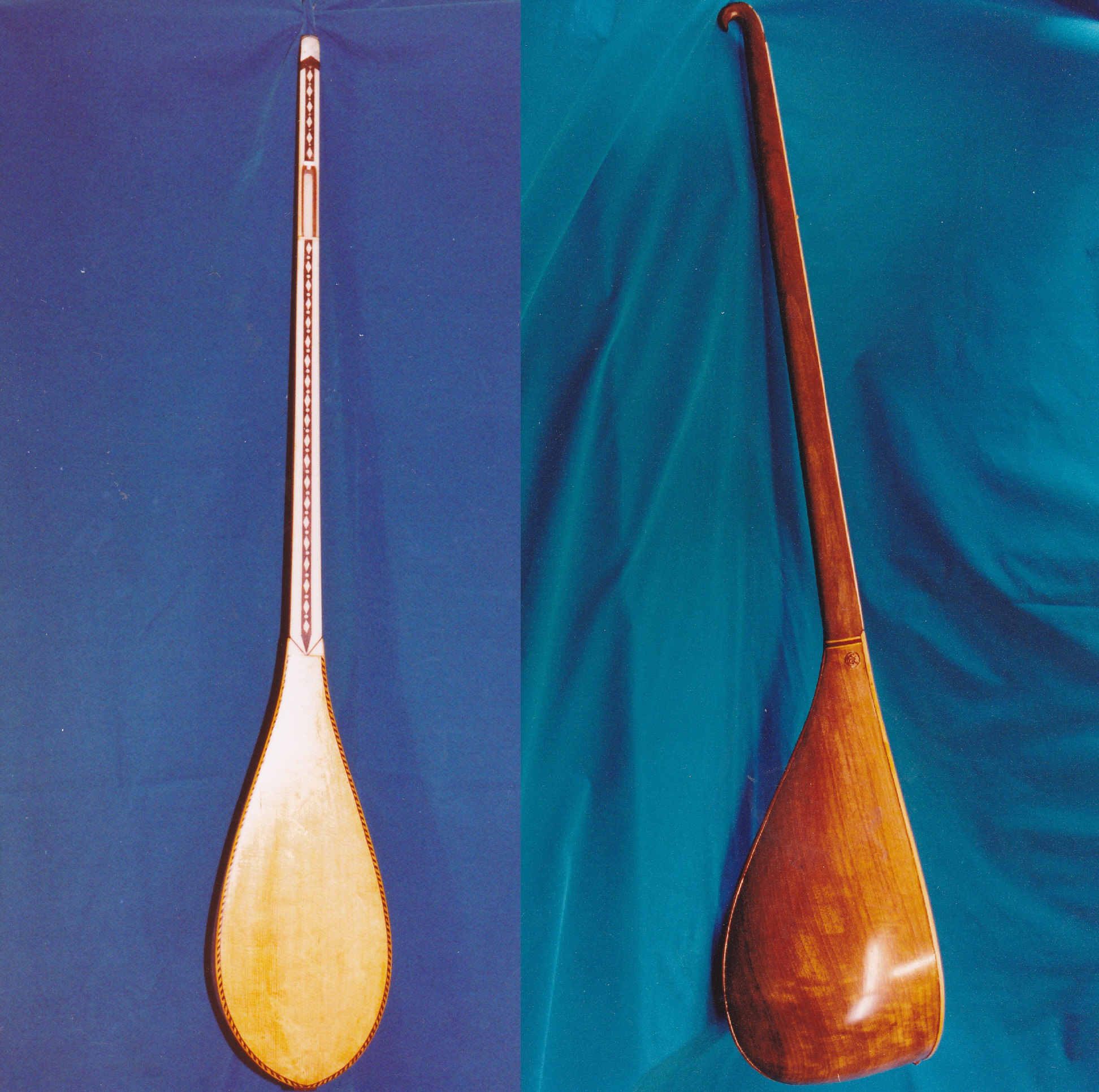 Iranian Dotar